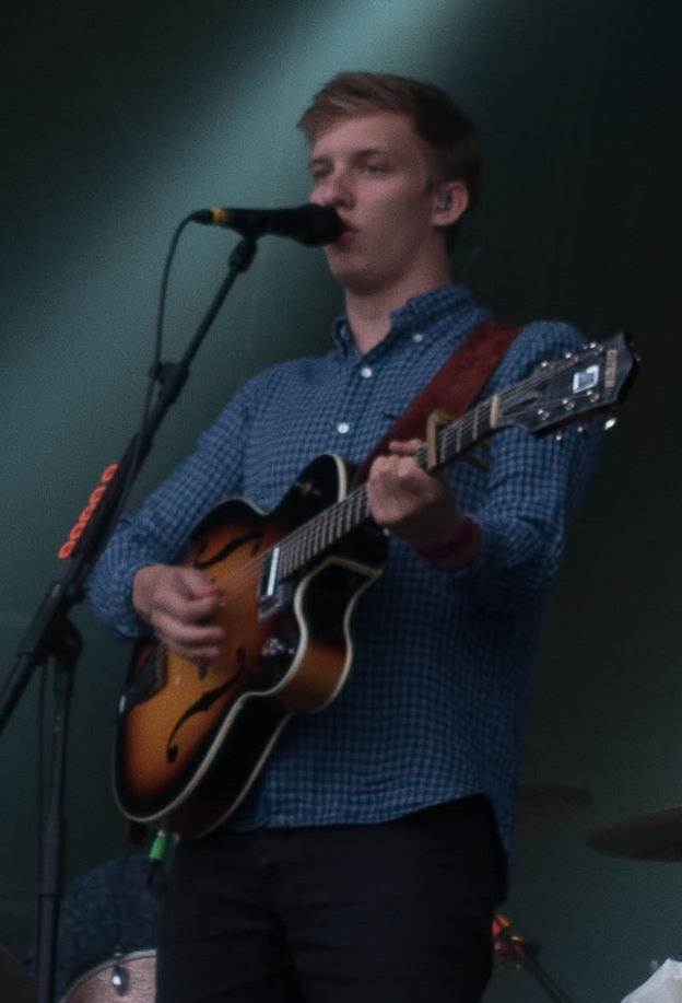 George Ezra supporting Robert Plant at Glastonbury Abbey